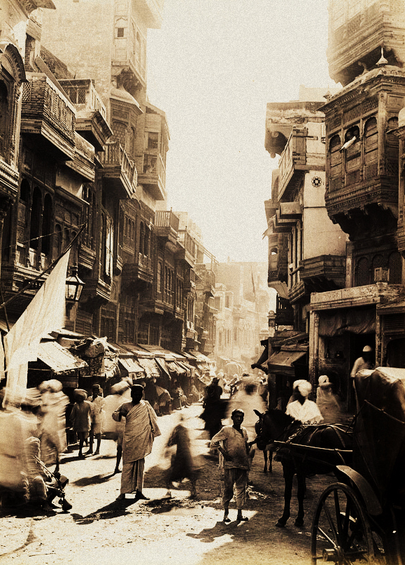 A street scene in British colonial Lahore — taken in the old city section during the 1890s (c. 1895). This photograph is a view of the facades of houses, with ornate wooden Mashrabiya balconies projecting out, and shop awnings below, over and along a long narrow street in old Lahore. It captures people in motion, including in a horse-drawn cab in the foreground. Photograph, taken by an unknown photographer, is from the Macnabb Collection, British Library. History The city of Lahore is situated on the Ravi River, where it meets the "Afghanistan to Bengal Road". It rose to prominence under the Mughal Empire — after Babur (ruled 1526-1530) defeated Ibrahim Lodi, a Sultan of Delhi, in 1526. It became the capital city of Emperor Akbar (ruled 1556-1605) from 1584 to 1598. Akbar rebuilt the fort and enclosed the city within a high defensive wall set with 12 gates. Under the rule of Ranjit Singh (1780-1839), the famous Sikh leader, it became the capital of Punjab (pre-modern Pakistan) from 1799 to 1839. It grew into a significant Bengali city in colonial British India. Lahore' reputation as a "City of Gardens" is from the Mughal gardens in prominenance here. The are of sophistcated interpretaions of Islamic Paradise Gardens, with garden designs on a grand scale having exquisite detailing of landscape elements and features, in materials, scale, and artisanship. The Mughal architectural legacy in Lahore includes the fort, and various palaces and tombs.